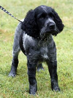 Harry Andrews